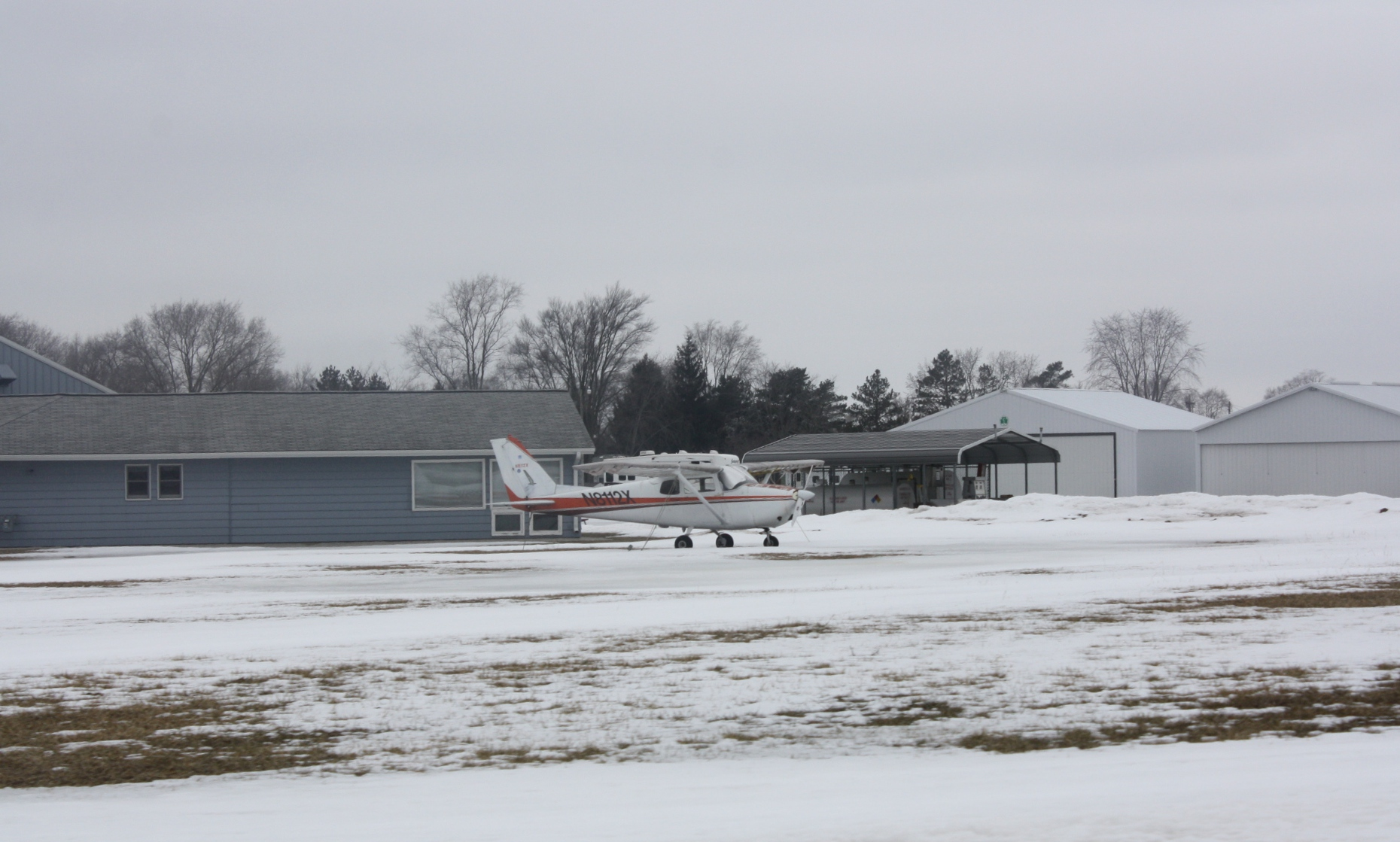 An airplane near the buildings at the Town of Palmyra Airport.